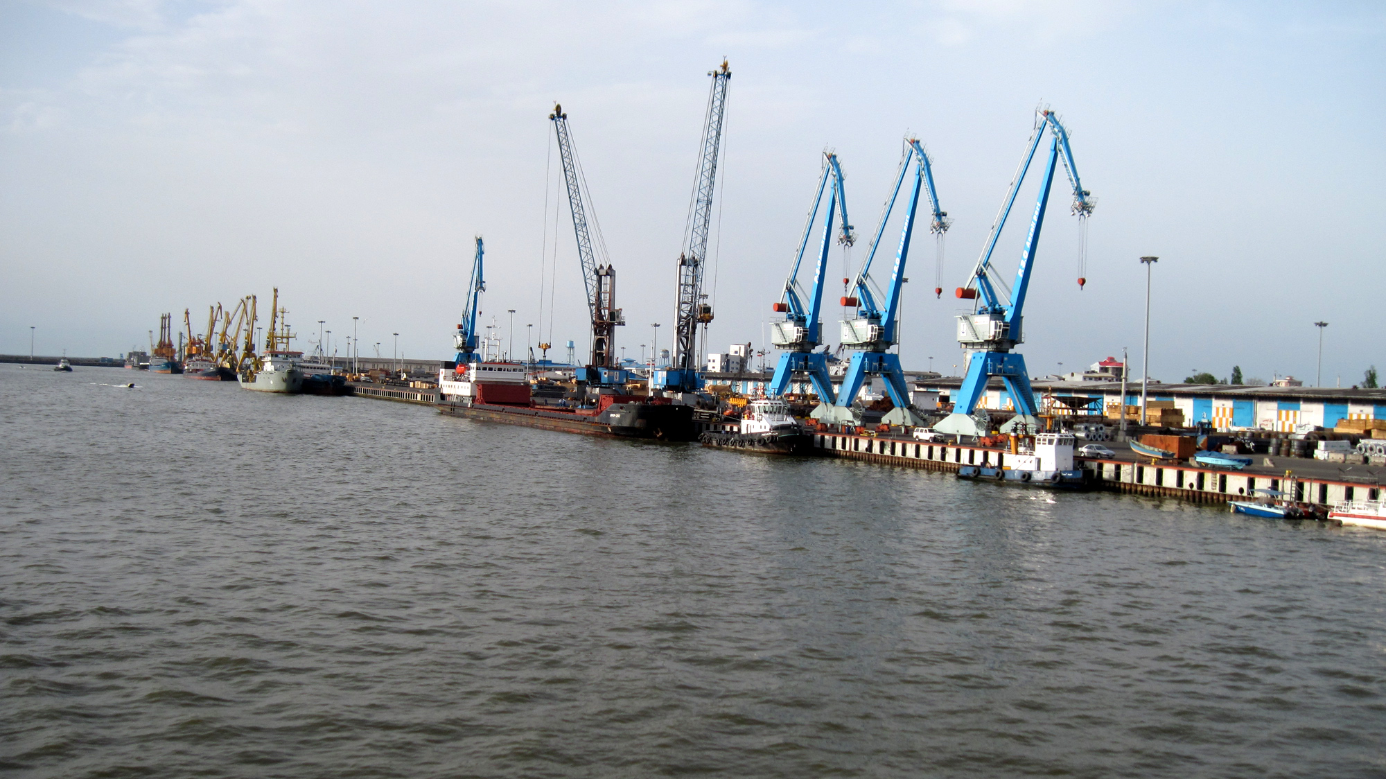 Anzali port, Iran